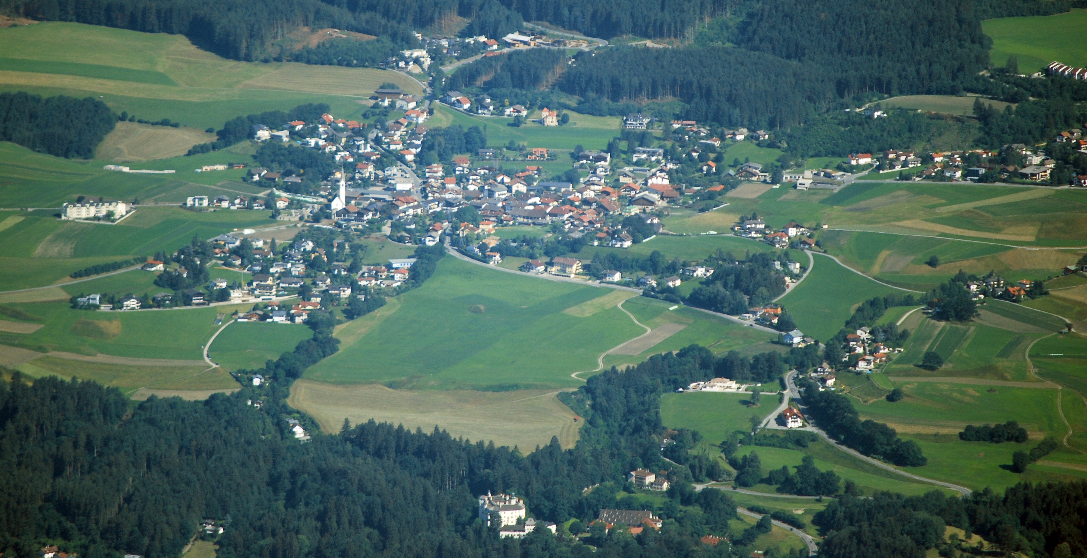 Aldrans from NW (Brandjoch)